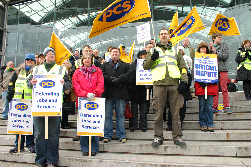 Dave Seagrave from Norwich Jobcentre (standing with PCS flag) says: '...it is all about protecting jobs, services, and pay and conditions and for fighting against us paying for the bailing out of the banking system.'